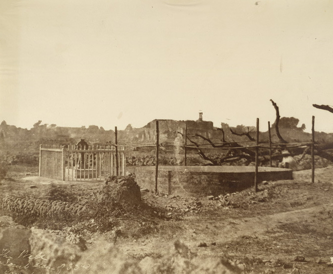 Photograph entitled, "The Well and Monument, Slaughter House, Cawnpore" Kanpur, Uttar Pradesh, taken in 1858. From 'Murray Collection: Views in Delhi, Cawnpore, Allahabad and Benares' taken by Dr. John Murray. Picture shows the Bibigurh house in which European women and children were killed and the well where their bodies were found.